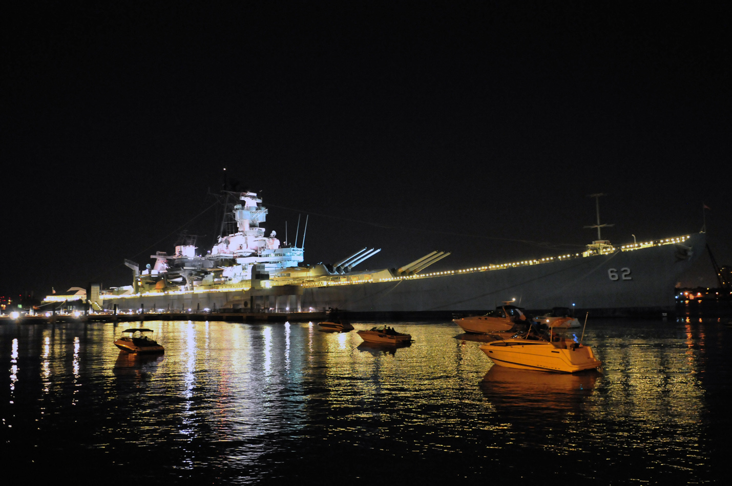 The USS New Jersey berthed in Camden, New Jersey, night shot.